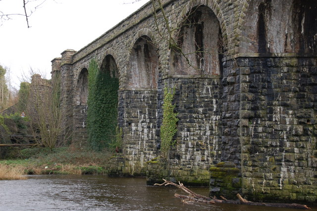 Former railway viaduct at Randalstown (1) See 347141. The viaduct carried the line across the River Maine. Had the line still been open the view would have been towards Belfast. It is not shown on the OS map.